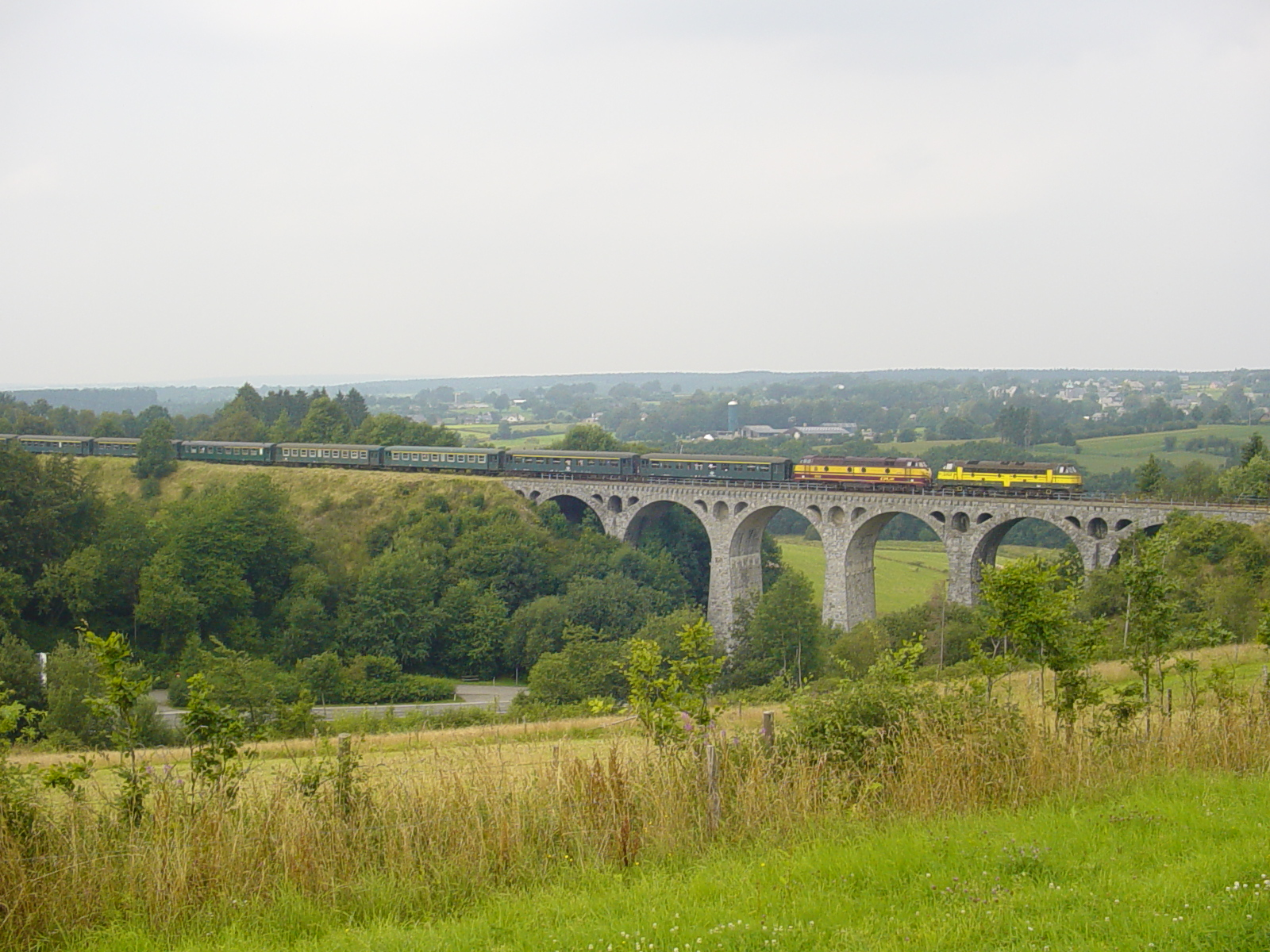 Bridge of Vennquerbahn railroad outside Bütgenbach, Wallonia, Belgium, in the area ceded to Belgium by Germany after World War I. It is 104 m long and 30 m high. This line was opened in 1912 [1] and operated for passenger trains until 1952 and for freight trains until 2003. The train in the picture was organized for a railfan tour by PFT-TSP association. The locomotives depicted are SNCB/NMBS 5307 & CFL 1805.